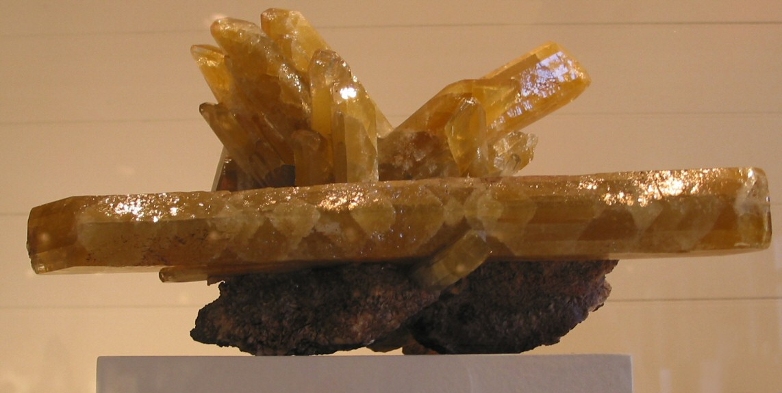 Barite, doubly-terminated crystal with crystal group from Cumberland, Cumbria, England. Exposed in the Harvard Museum of Natural History